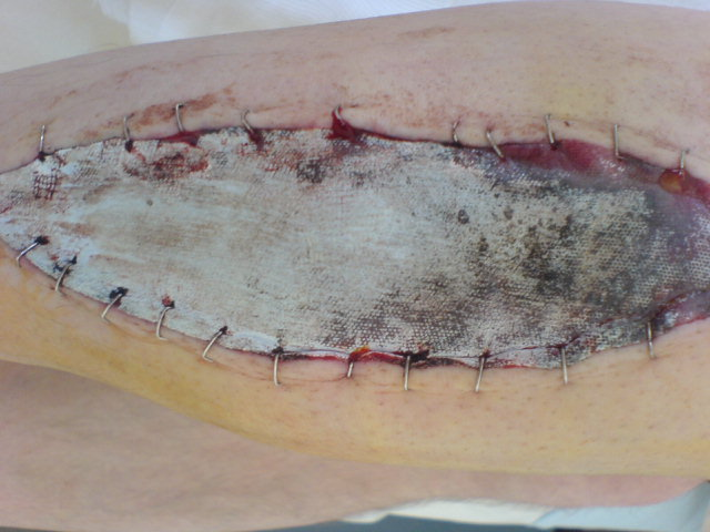 Epigard® (artificial skin) attached to skin flaps with staples, measuring ca. 25 x 3.5 cm - human lower leg, 3 days after surgery